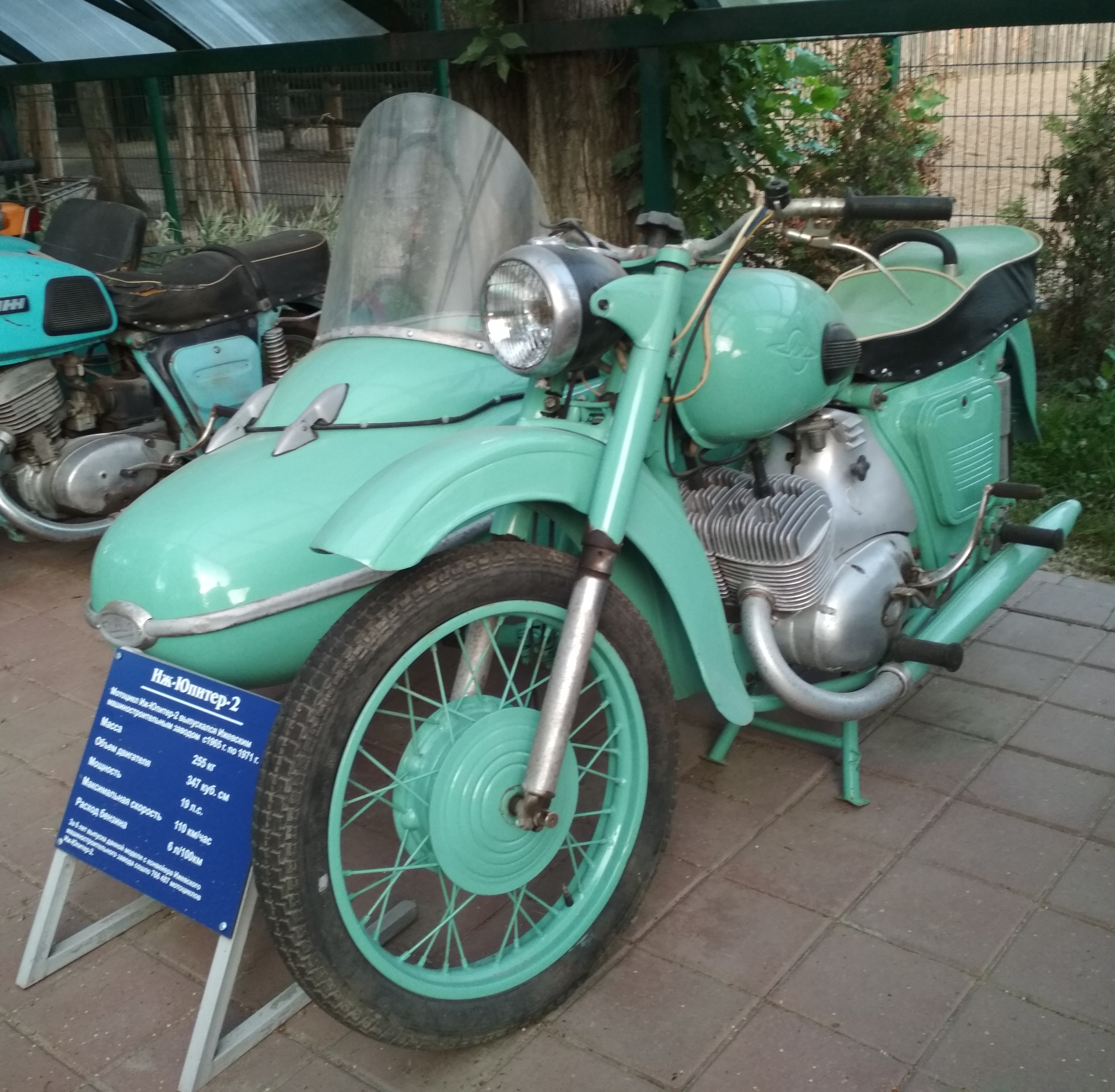 Motorcycle Izh Jupiter-2 in the collection of Nizhny Novgorod zoo "Limpopo"